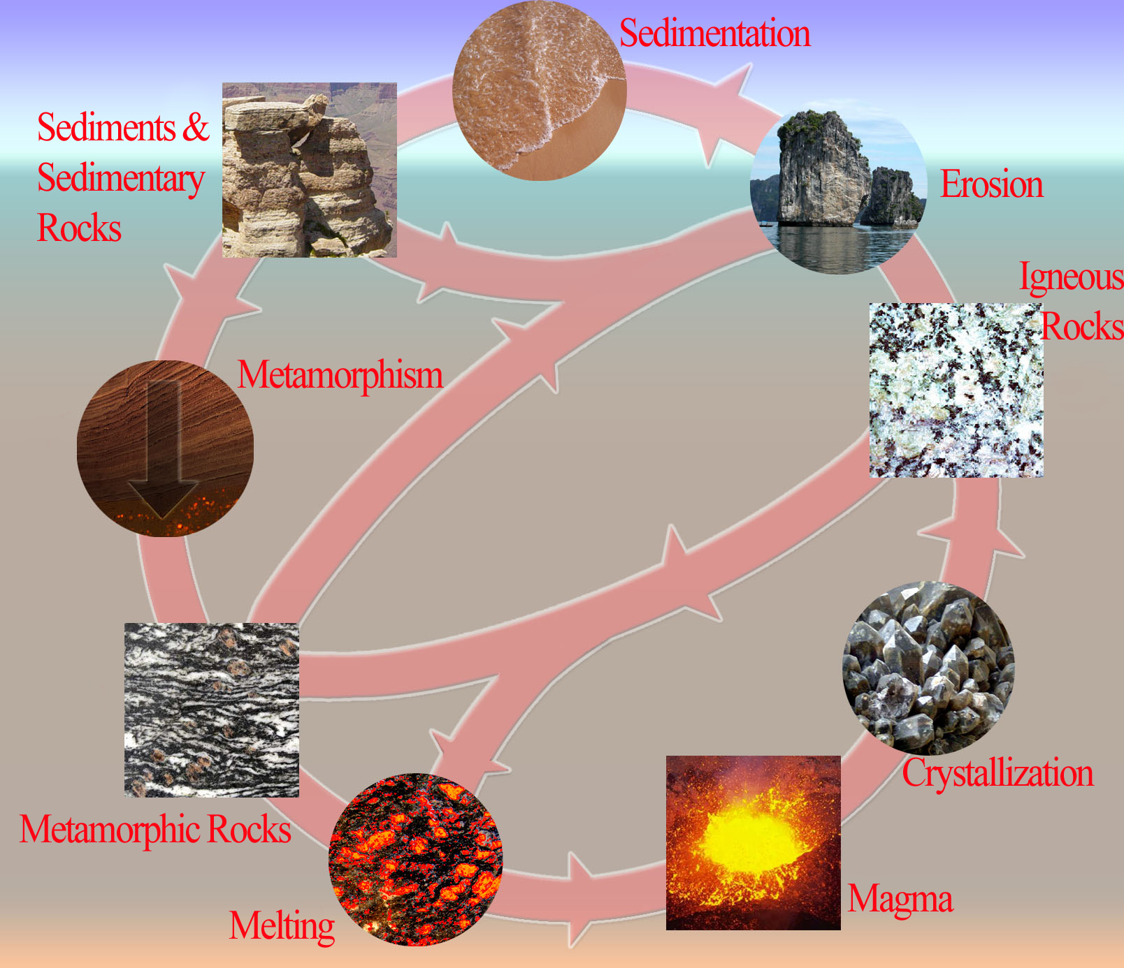 A diagram of the Rock Cycle that is modified off of Rockcycle.jpg by User:Woudloper. The changes made to this photo were made according to the conversation at where the original is being nominated for Featured Picture Status.